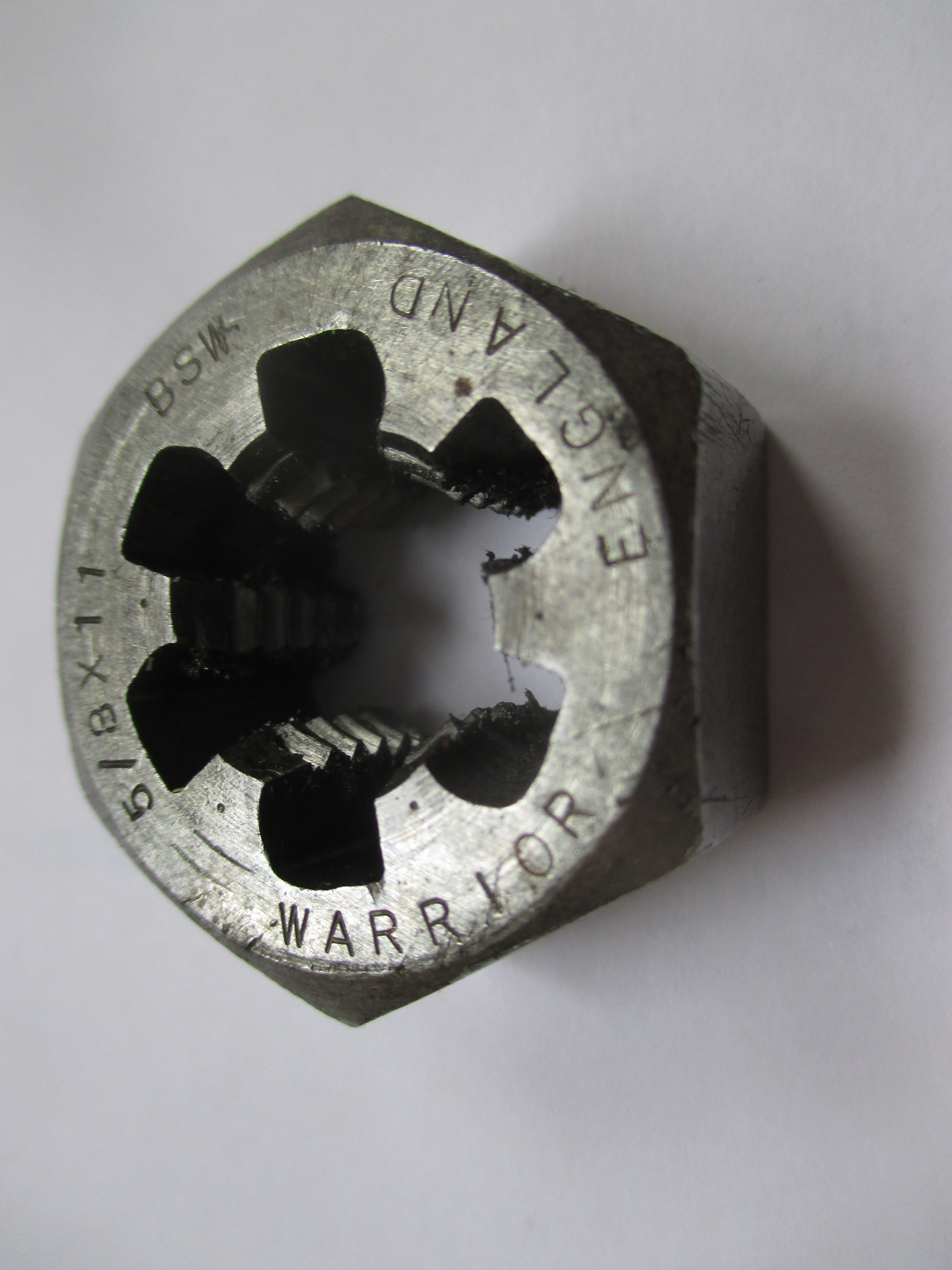 British Standard Whitworth coarse 5/8" thread cleaning nut.